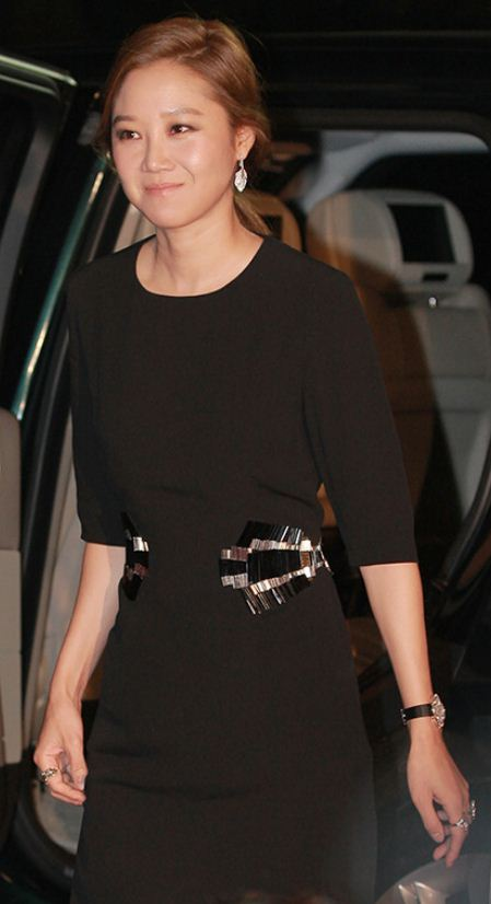 Gong Hyo-jin South Korean actress